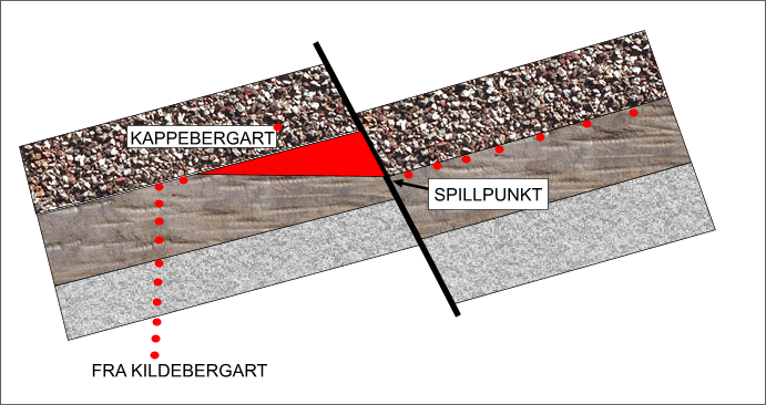 A sketch of oil migration from source rock into a trap